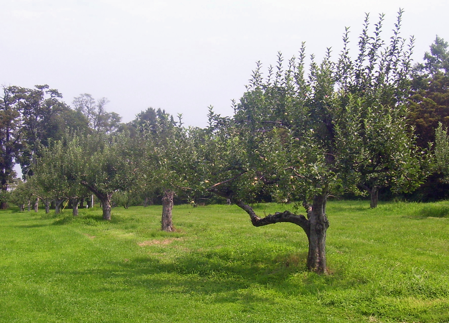 Working orchards at Montgomery Place, Annandale-on-Hudson, NY, USA